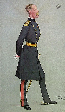 Caricature of Paul Methuen, 3rd Baron Methuen (1845-1932). Caption read "The Home District".